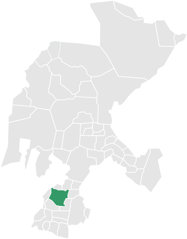 Map of the Municipality of Tlatenango in Zacatecas, México.